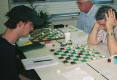 Ryan Pronk playing Alex Moiseyev